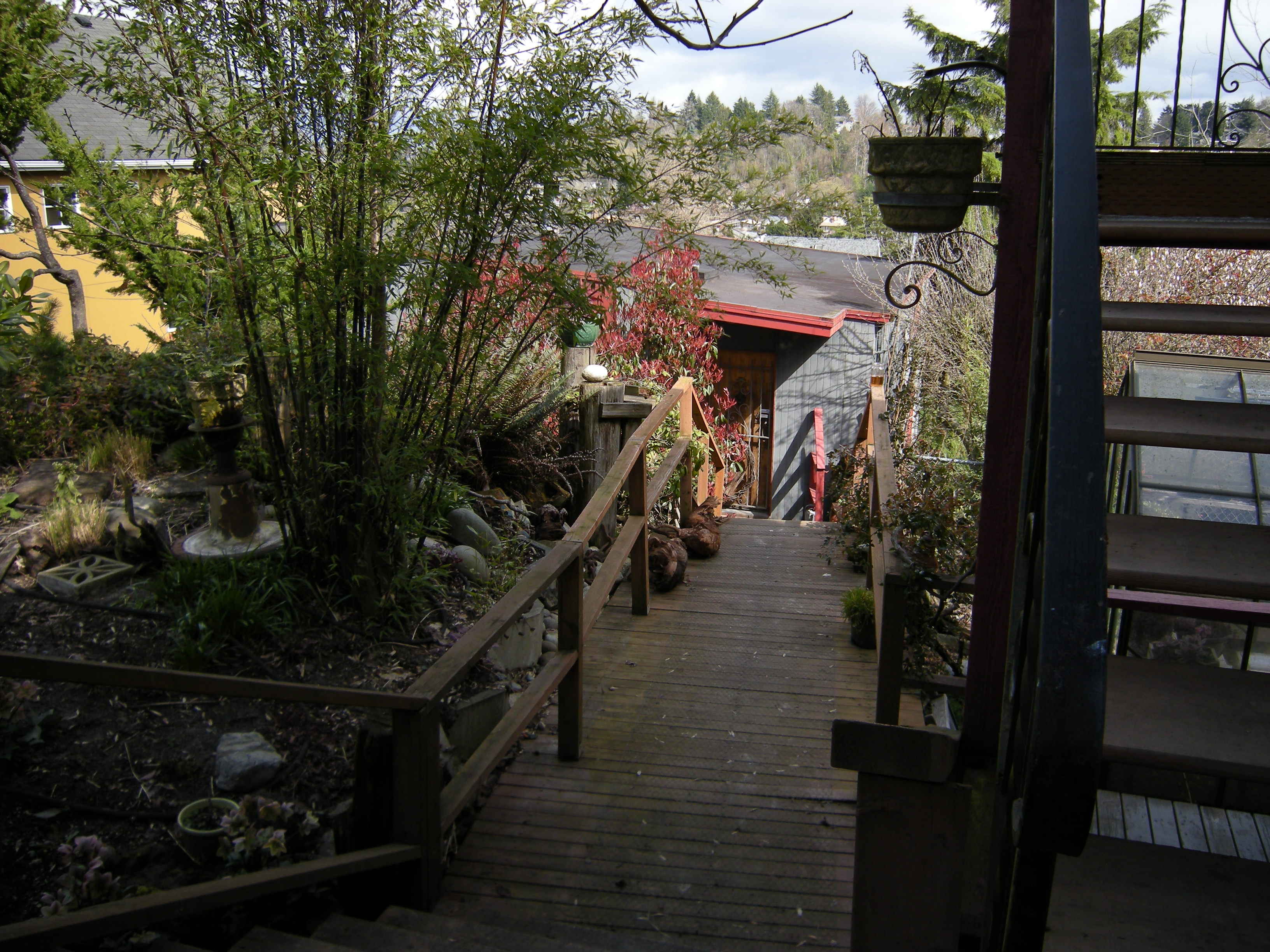 Garden and studio of artist James W. Washington, Jr. 1816 26th Ave., Seattle, Washington. The house and studio have official status as a city landmark.